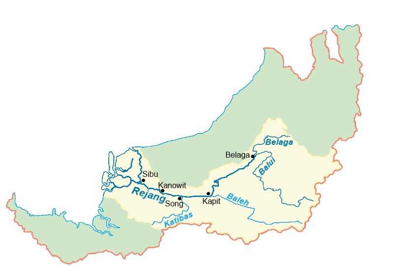 The Rejang River of Sarawak, with its largest tributaries. Drainage Basin marked yellow.